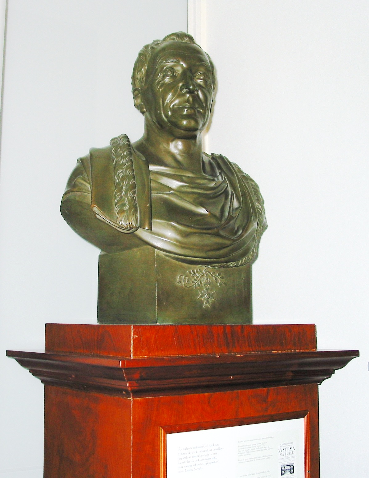 Carl von Linné (Carl von Linnaeus), bronze, 1807, by Jonas Forsslund (1754-1809) in Finnish Museum of Natural History, University of Helsinki, Finland